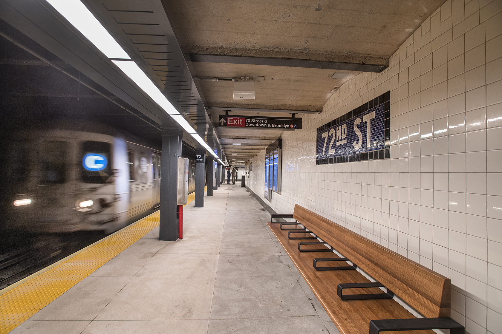 The Metropolitan Transportation Authority (MTA) reopened the 72 St station on the B, C lines following extensive work to repair deteriorating infrastructure and modernize the station environment with improvements such as digital signage for real-time service information, enhanced wayfinding and station entrances, energy-efficient lighting and updated security equipment. Photos: Patrick J. Cashin / Metropolitan Transportation Authority